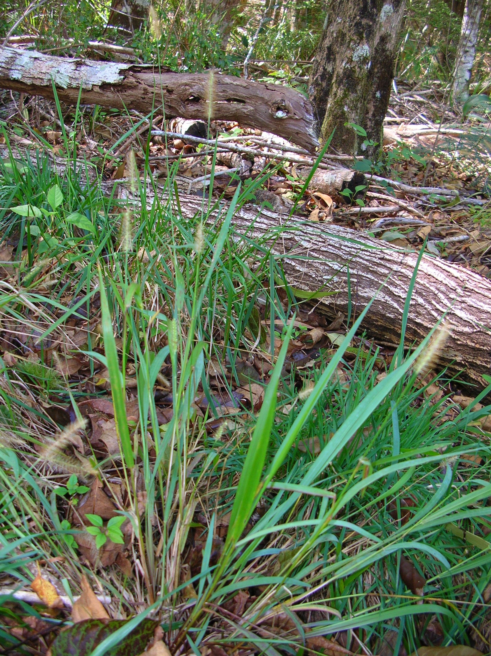 Setaria parviflora (habit). Location: Maui, Makawao Forest Reserve